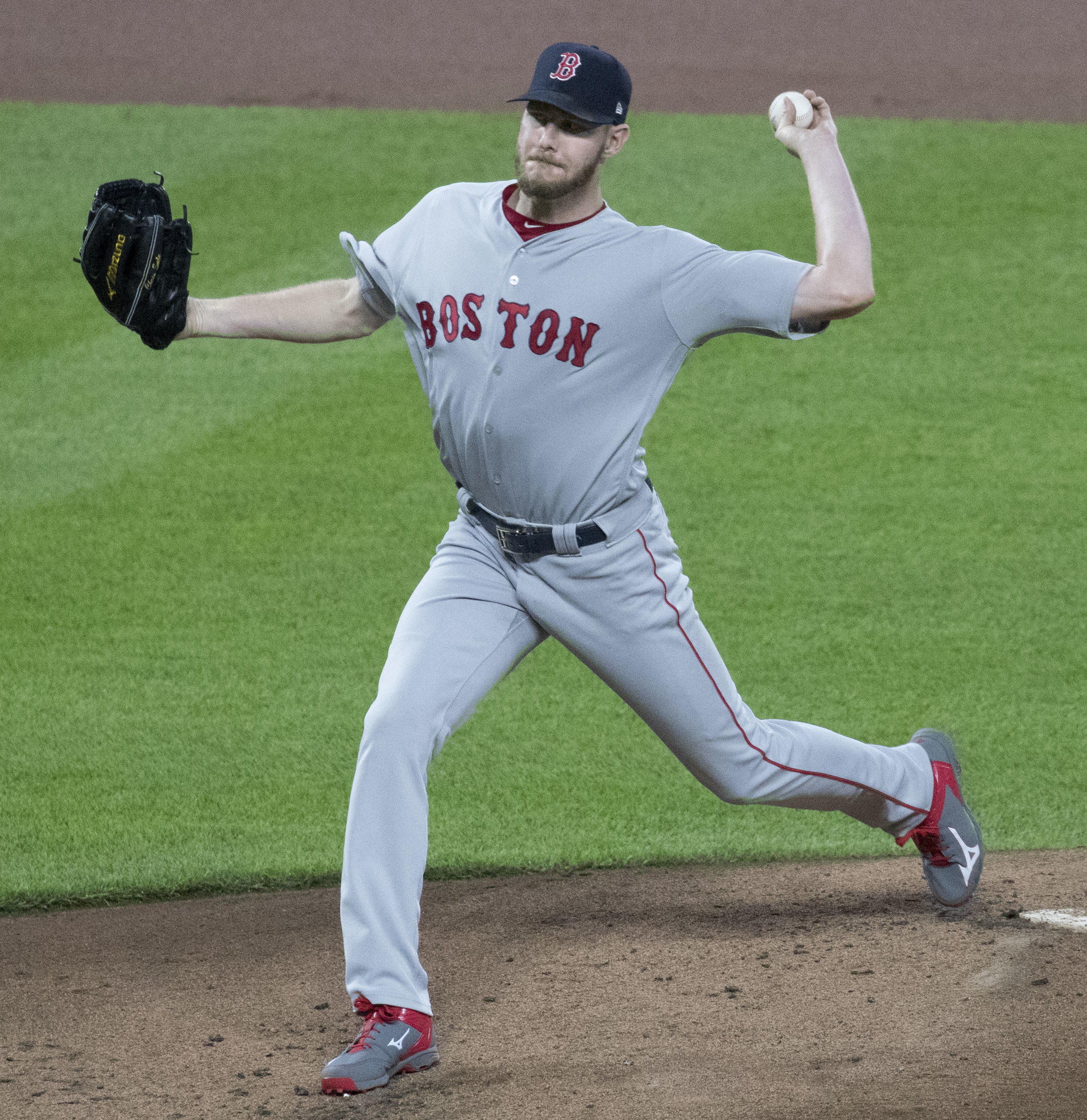 Chris Sale of the Boston Red Sox in a game against the Baltimore Orioles at Oriole Park at Camden Yards on September 20, 2017 in Baltimore, Maryland.